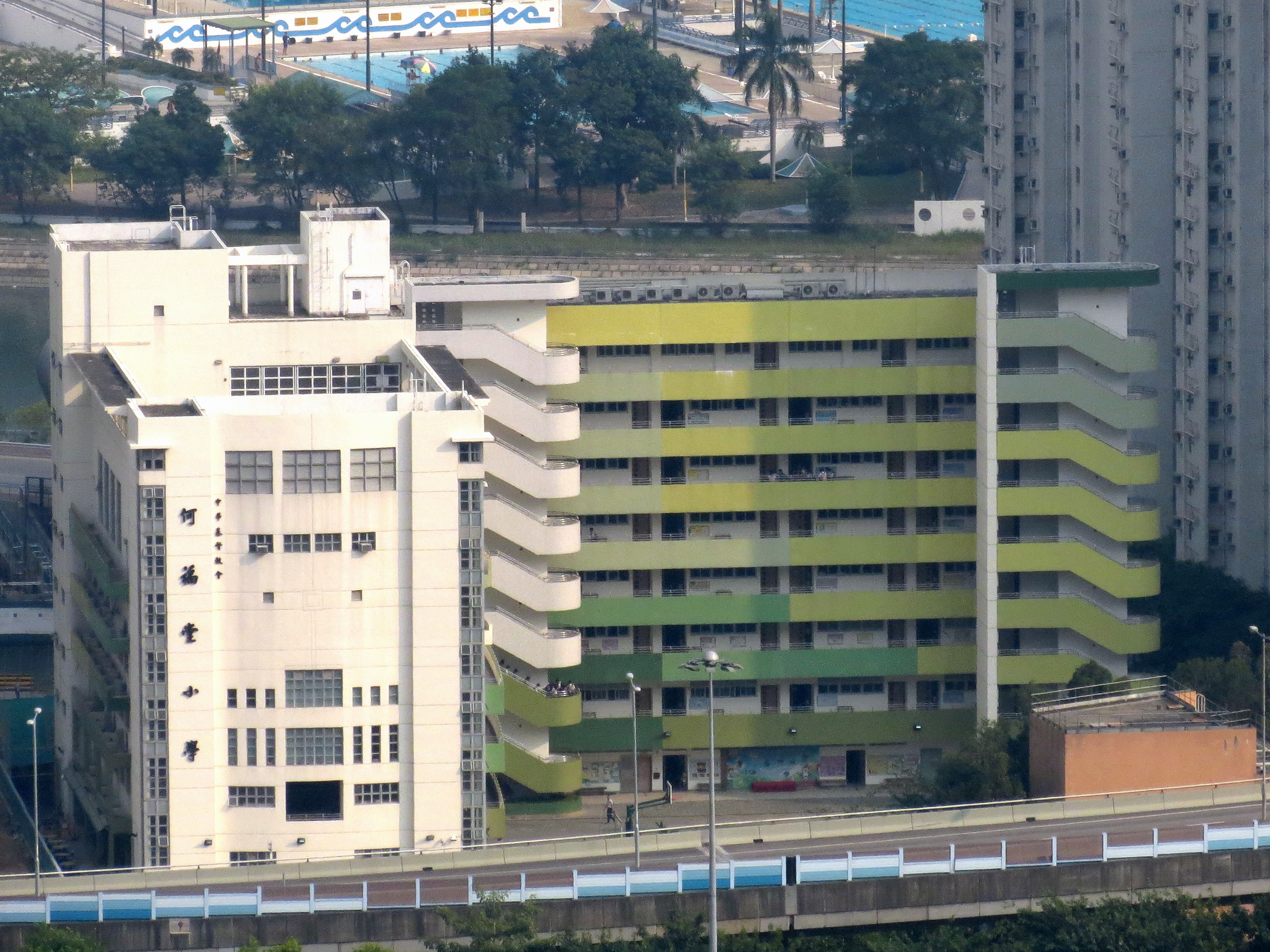 The Church of Christ in China Hoh Fuk Tong Primary School, Tuen Mun, New Territories, Hong Kong.